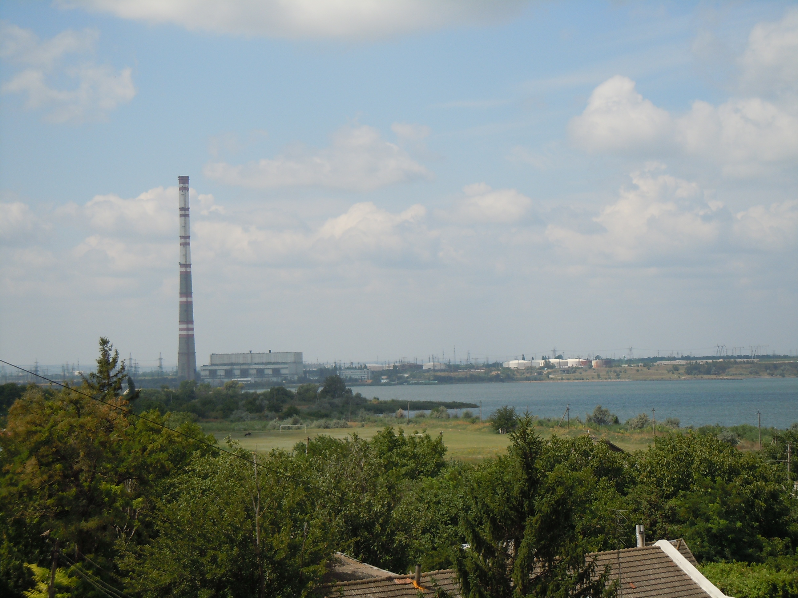 The view on the Cuciurgan Reservoir, on the border between Ukraine (Odessa Oblast) and Moldova